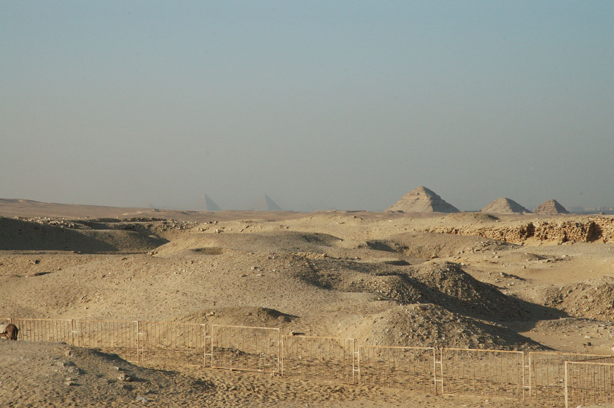 The Pyramids of Abusir (foreground) and the Pyramids of Giza (background, faint)